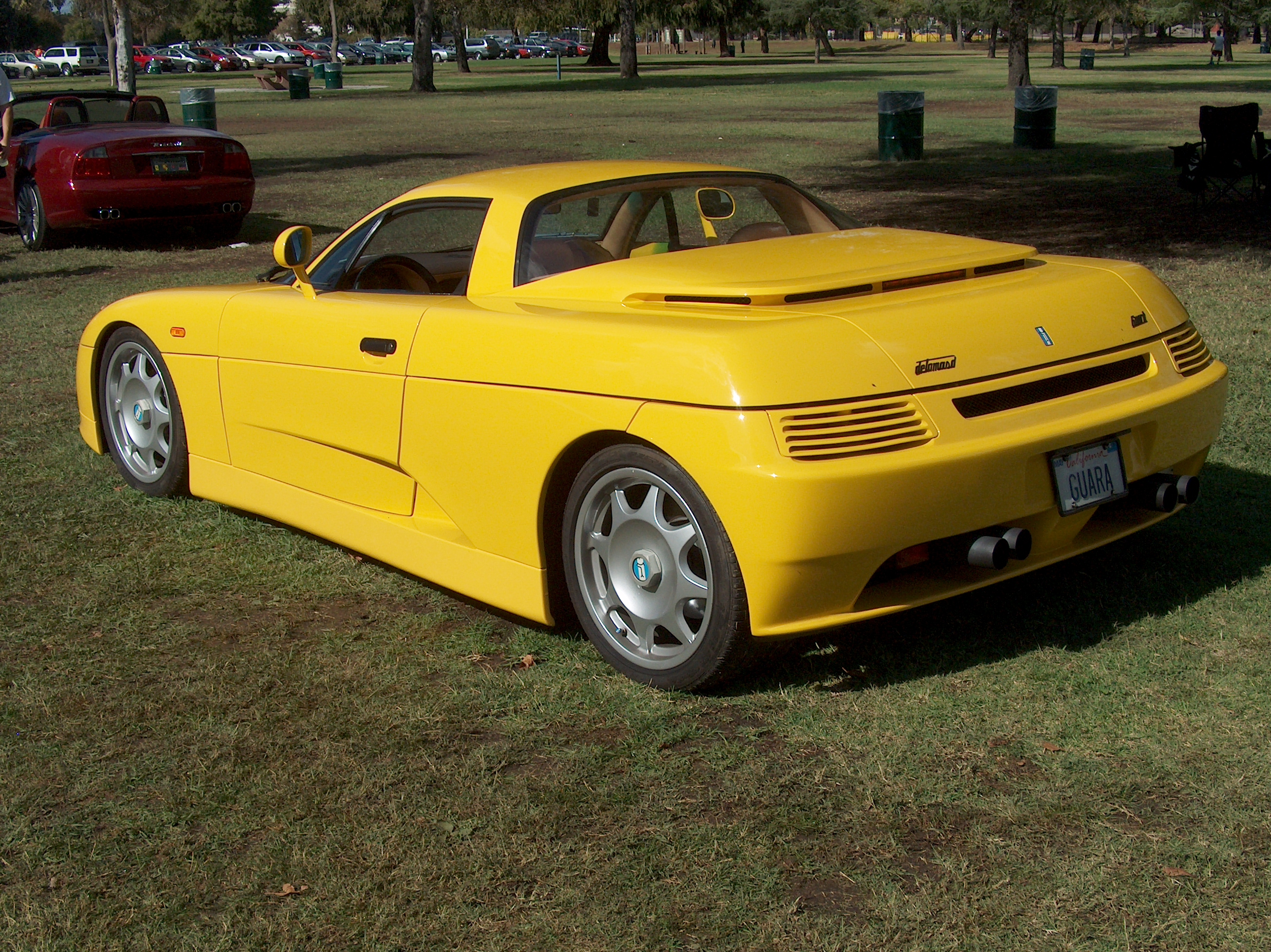 De Tomaso Guarà with a Ford V8 - made legal to drive in California USA